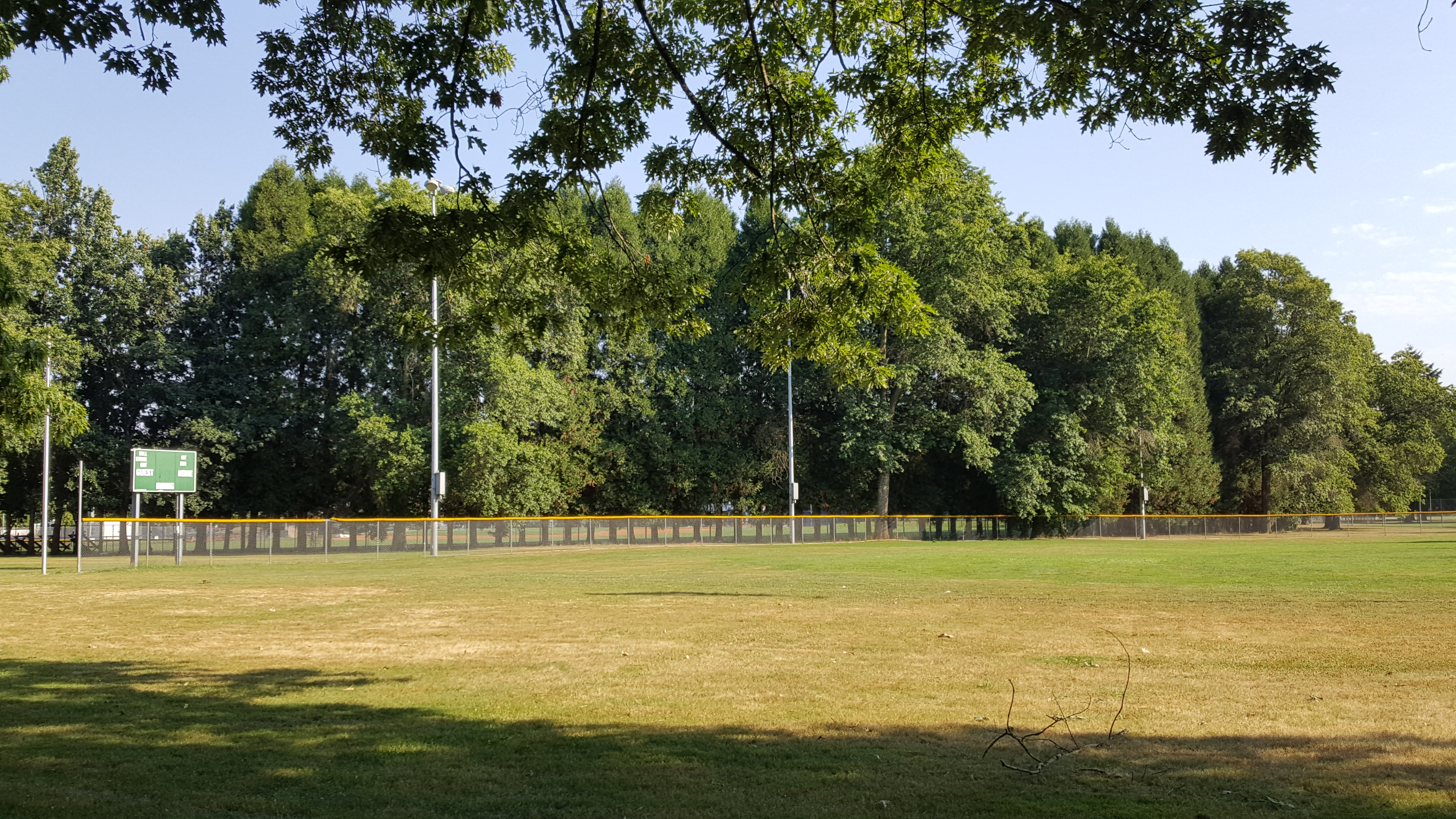 Lents Park, SE Portland, Oregon, July 2020